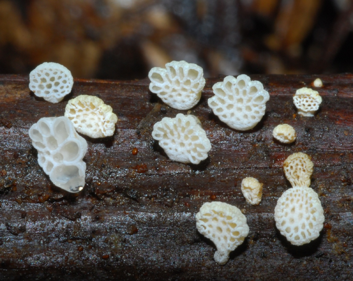 Favolaschia cyatheae Location: Auckland, New Zealand Notes: This species was previously thought to be Favolaschia peziziformis.